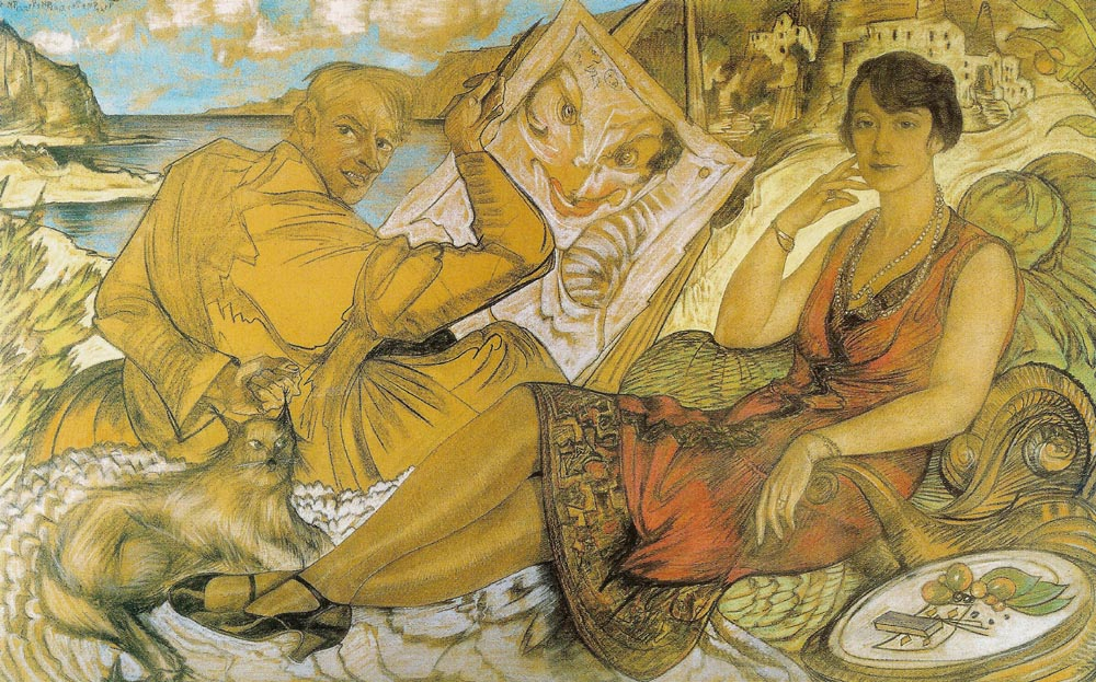 Stanisław Ignacy Witkiewicz - False woman - Portrait of Mrs. Maryla Grosmanowa with Stanisław Ignacy Witkiewicz